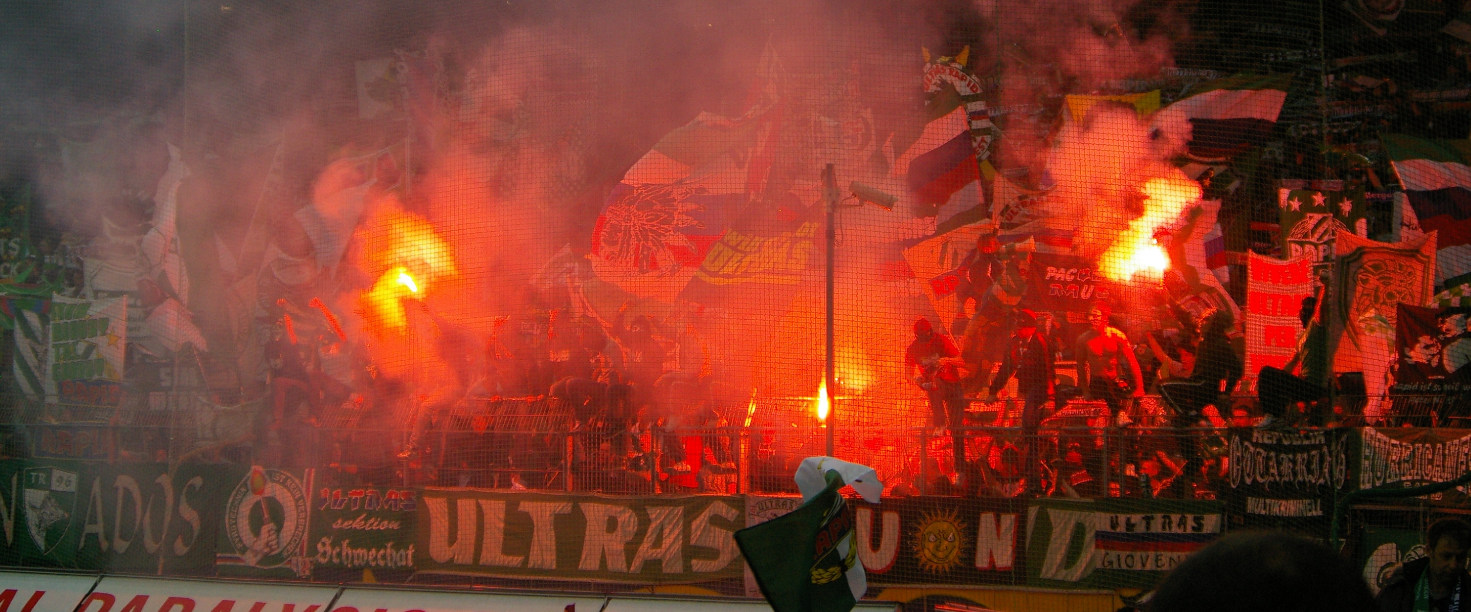 supporters SK rapid awaymatch vs. RED BULL Salzburg